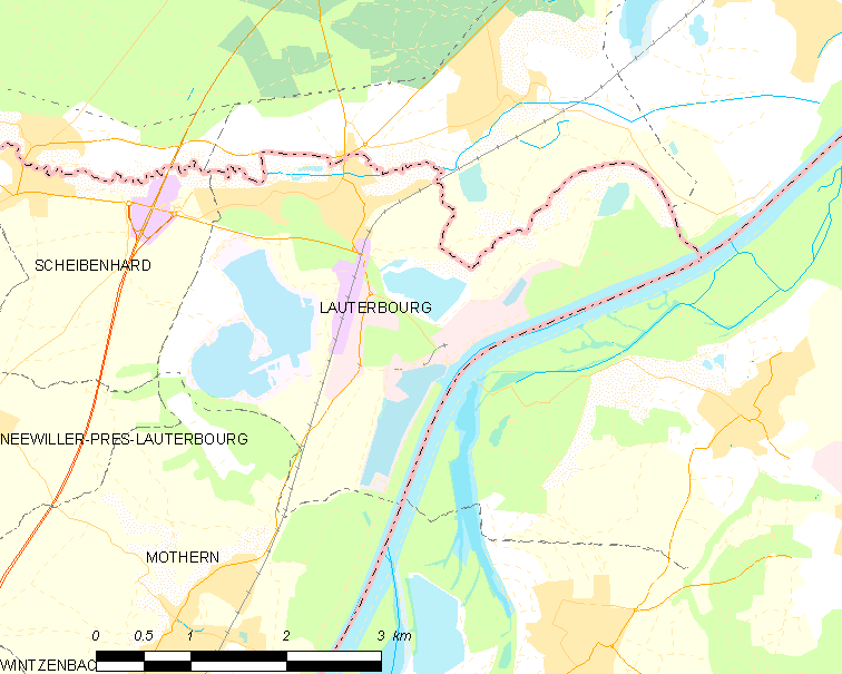 Map of French municipality